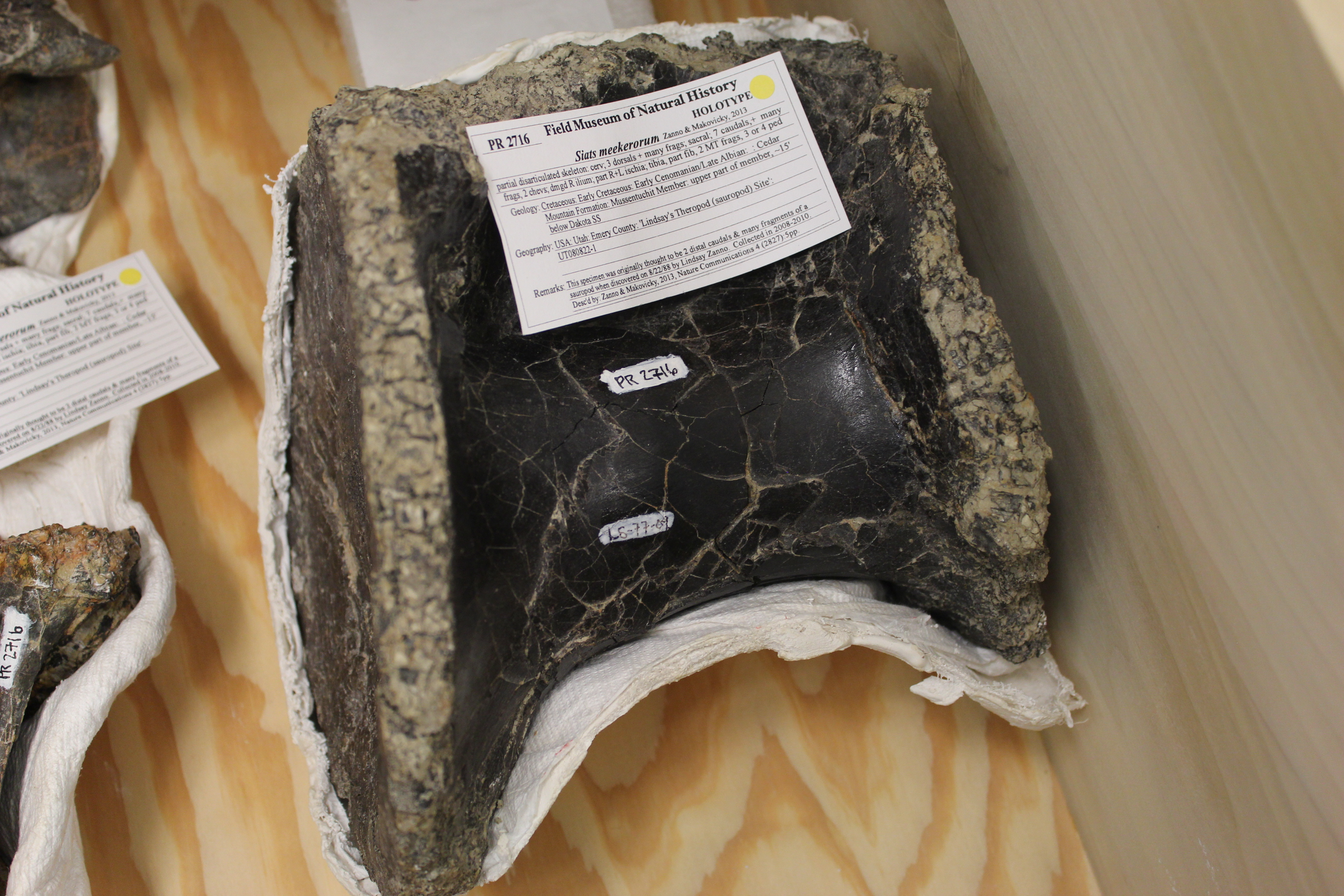 The caudal dorsal centrum of Siats at the Field Museum of Natural History.